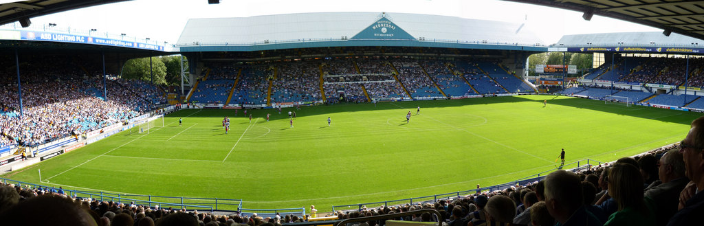 Hillsborough Stadium, Sheffield, near to Parson Cross, Sheffield, Great Britain. Home of Sheffield Wednesday FC. The view from my seat, with an unusual score on the board!